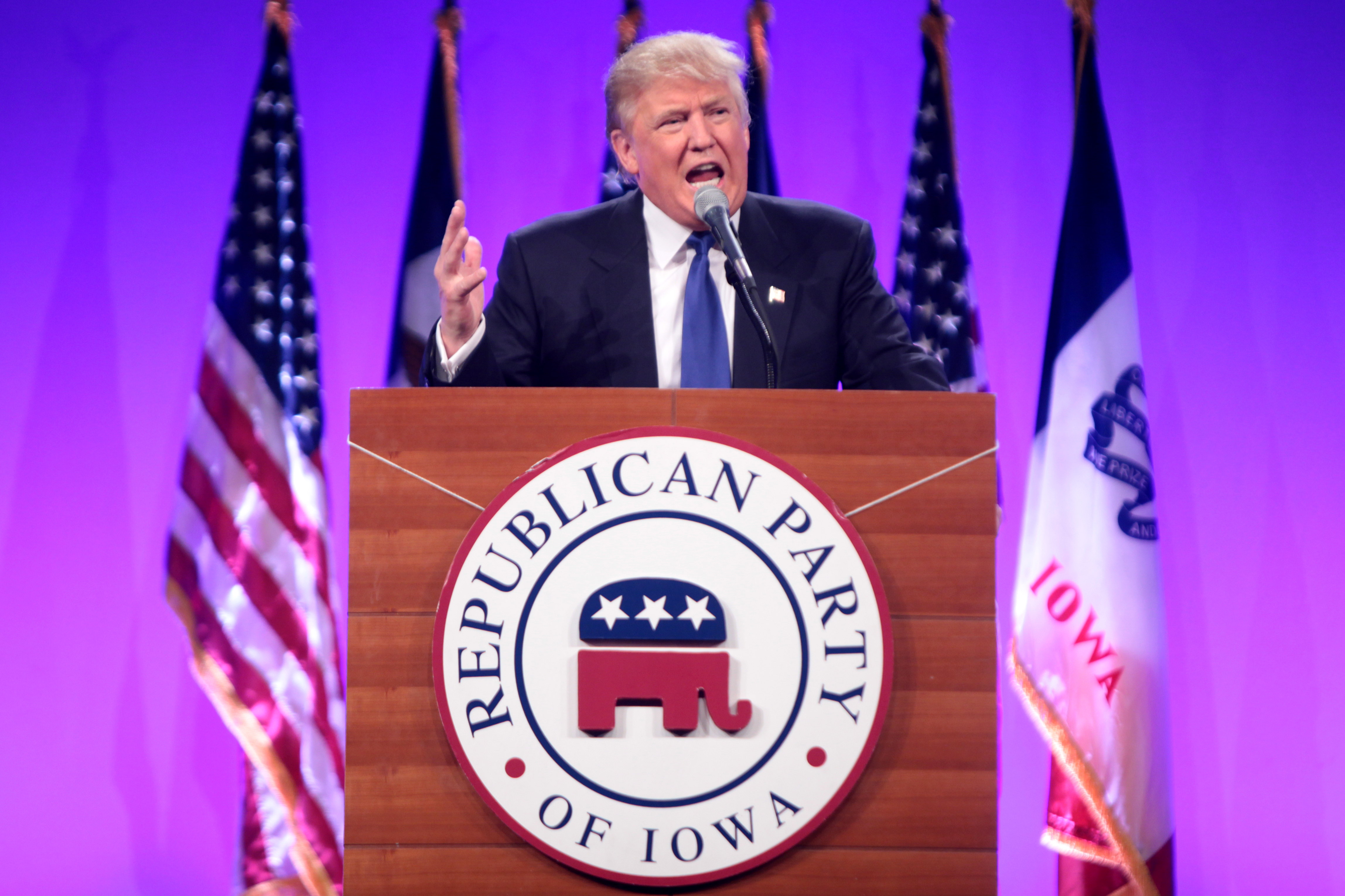 Donald Trump speaking at the Iowa Republican Party's 2015 Lincoln Dinner at the Iowa Events Center in Des Moines, Iowa.